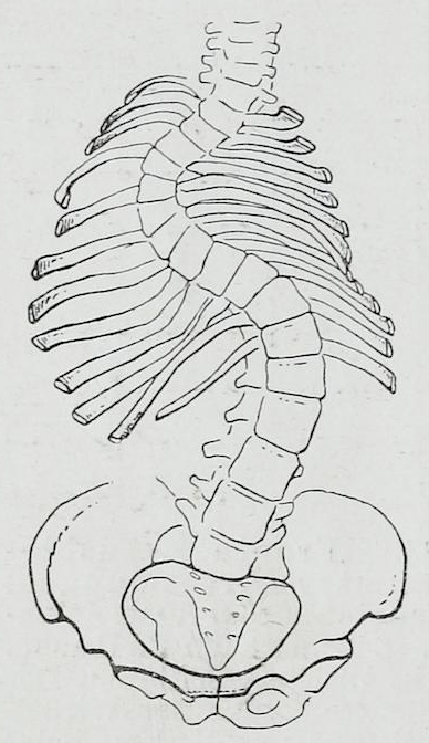 An anatomical illustration from the 1921 German edition of Anatomie des Menschen: ein Lehrbuch für Studierende und Ärzte with latin terminology.